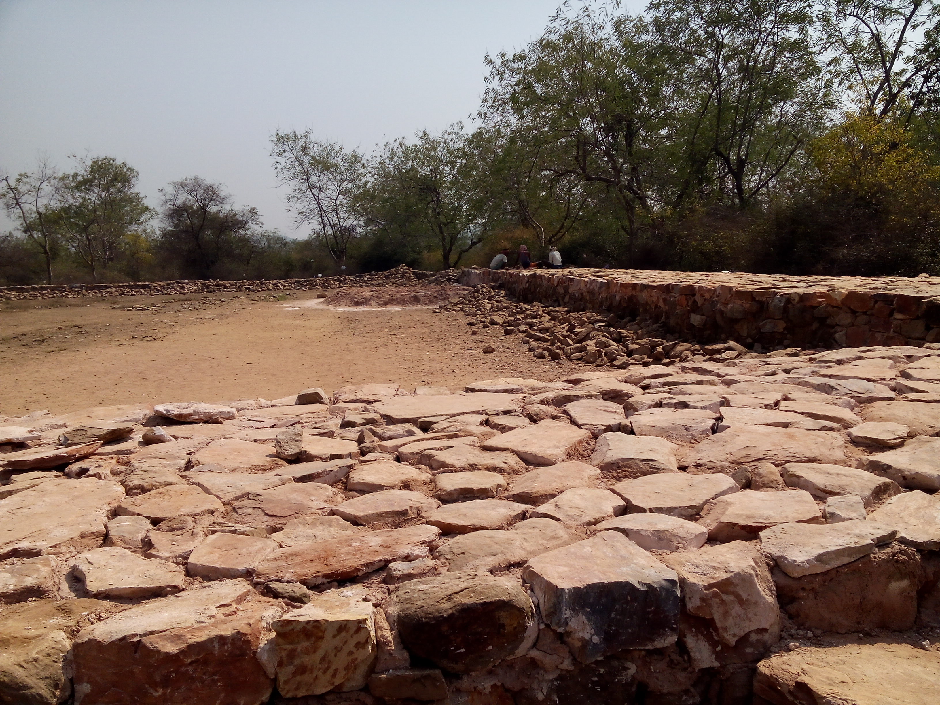 This is a place which will remind us of an unfortunate father who was imprisoned by his own son. Bimbisar jail is a prison where king Bimbisar (558 BC - 491 BC) was kept by his own son Ajatashatru (492 BC - 460 BC) so that he can enjoy the privilege of being on the throne. Interestingly, the site was selected by the kind himself so that he could have the privilege of watching the ascent of Lord Buddha everyday to the mountain retreat at Griddhakuta hill.